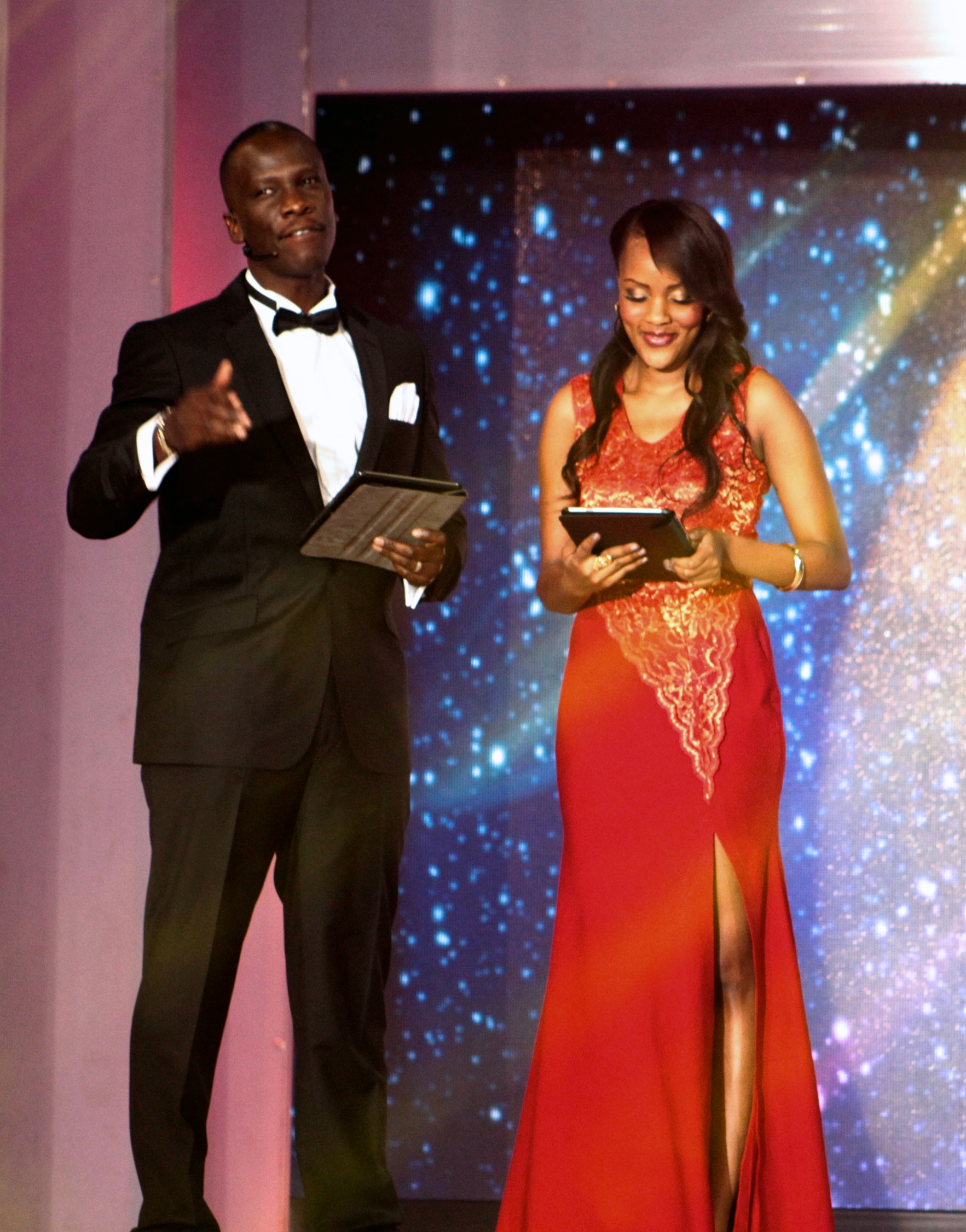 Joey Muthengi hosting Tusker Project Fame with Dr. Mich